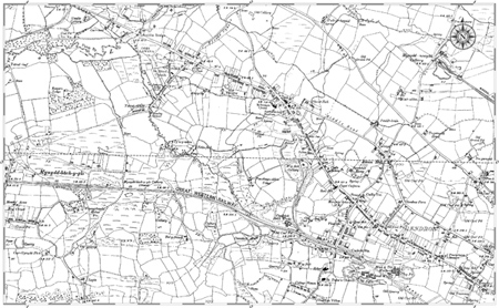 Picture of Fforestfach in the 1860s